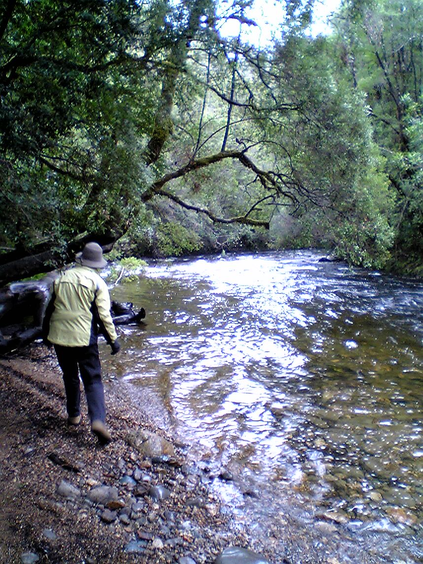 Bank of the Franklin River in the Tasmanian Wilderness World Heritage Area. Photo was taken near where the river passes under the Lyell Highway.